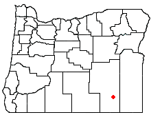 Location of Steens Mountain within Oregon.